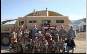 555th EN BDE Soldiers conduct assured mobility while deployed to Iraq circa 2008. The vechile is a Iraqi Light Armored Vehicle based off of the Couger (4x4) MRAP.